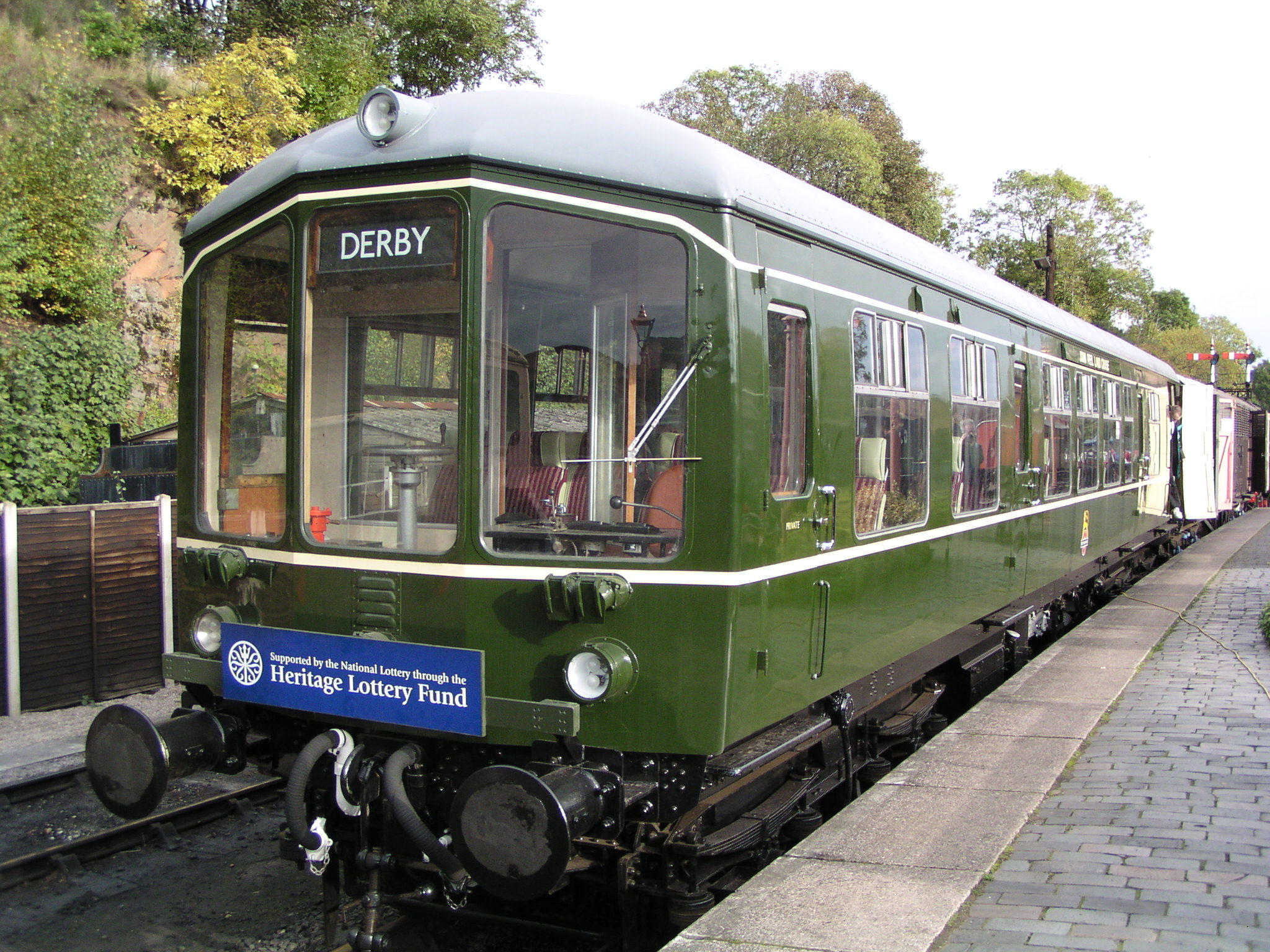 BR Derby Lightweight power car no. 79018 on display at Bewdley on the Severn Valley Railway on 15th October 2004, as part of the Railcar 50 event. This vehicle has been restored to its original condition using a grant from the lottery heritage fund, and is preserved at the Midland Railway Centre.